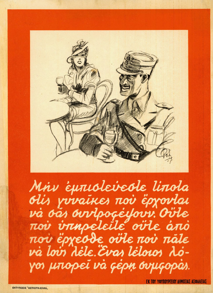 Poster by Fokion Dimitriadis (1894-1977). Printed by Aspioti-Elka, circa 1940, for the Greek Deputy Minister of Public Security. Dimensions 40 cm x 30 cm.